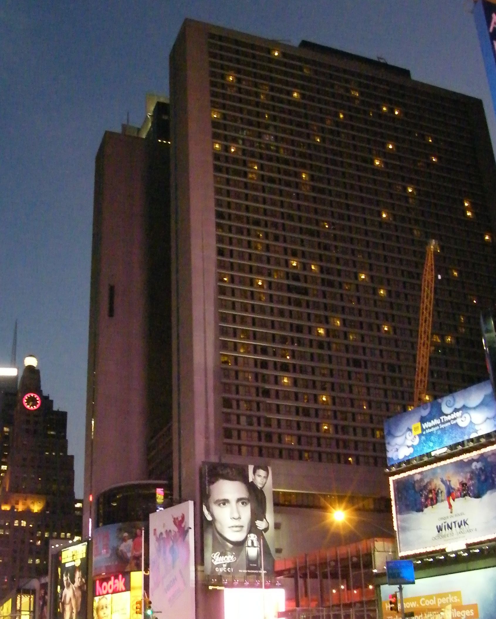 New York Marriott Marquis